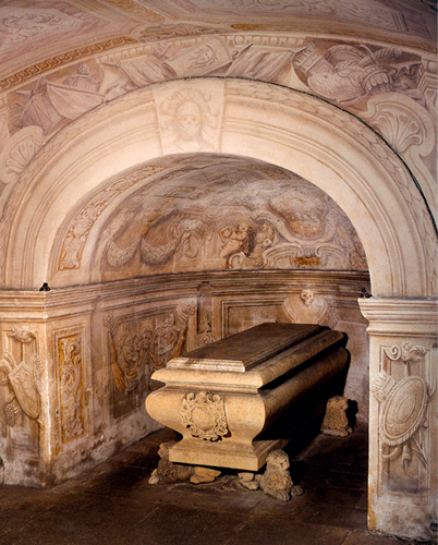 Jean de la Cassiere sarcophagus in the crypt of St. John Co-cathedral